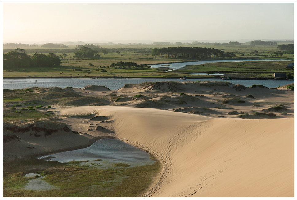 Sand dunes in Rocha, Uruguay.